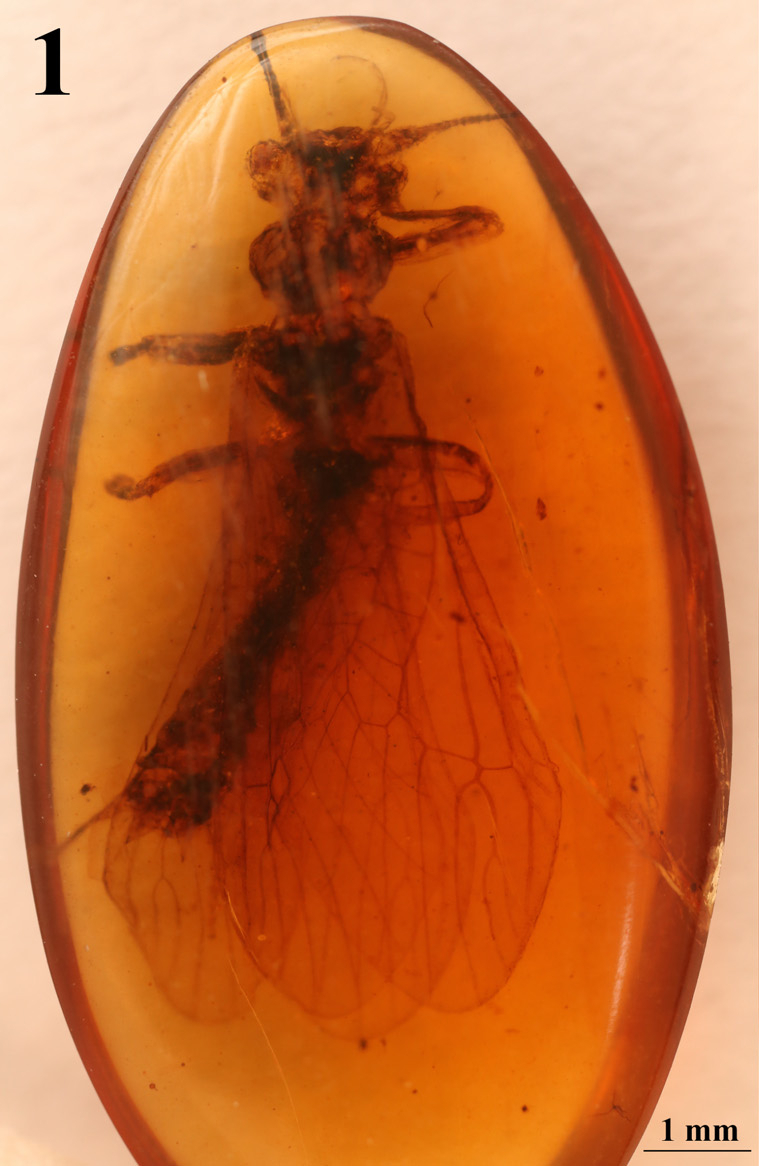 FIGURE 1–2. Largusoperla difformitatem, Adult habitus, 1, dorsal view